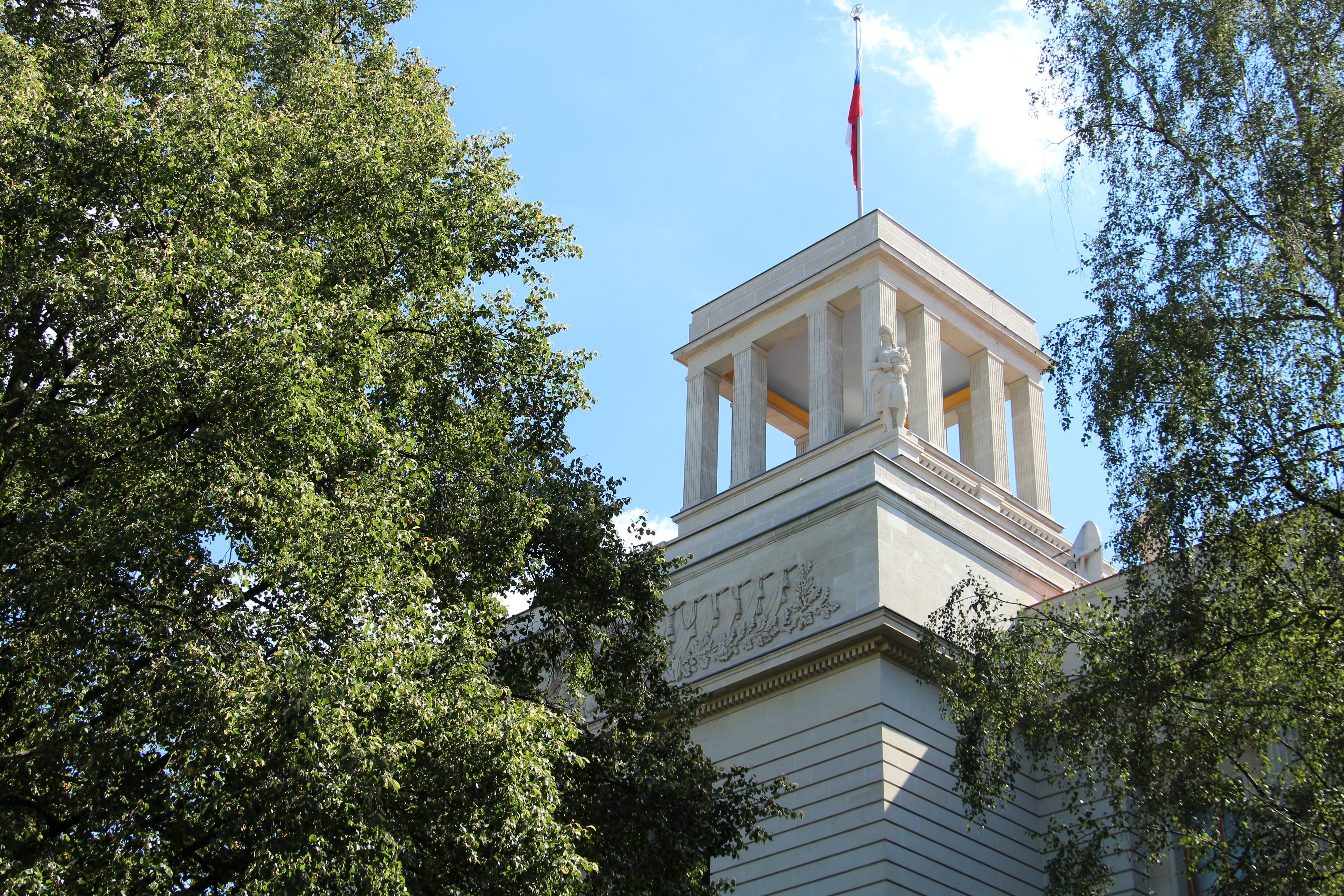 Mitte. Unter den Linden The Russian Embassy was built in a mixture of Stalinist neo-classicism and national building traditions as the embassy of the USSR. The imposing complex was built on the site of the old embassy, which was destroyed in the war and was an 18th-Century rococo palace. Arch. Friedrich Skujin 1950-53.